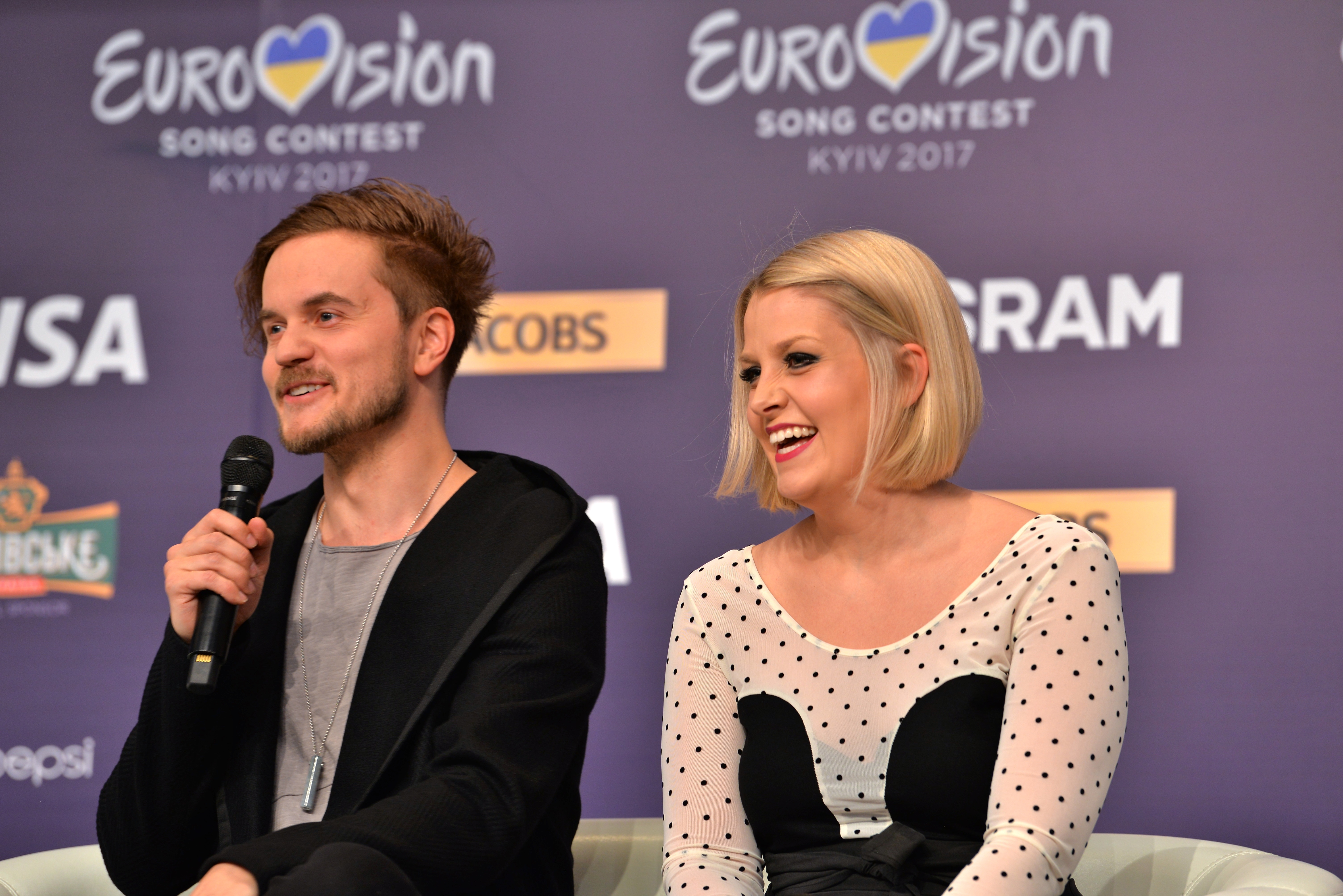 Norma John, an indie pop duo from Finland